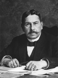 Gustav Ritter von Kahr (1863-1934), conservative prime minister of Bavaria from 1920 to 1921, shot at Dachau Concentration Camp on June 30th 1934